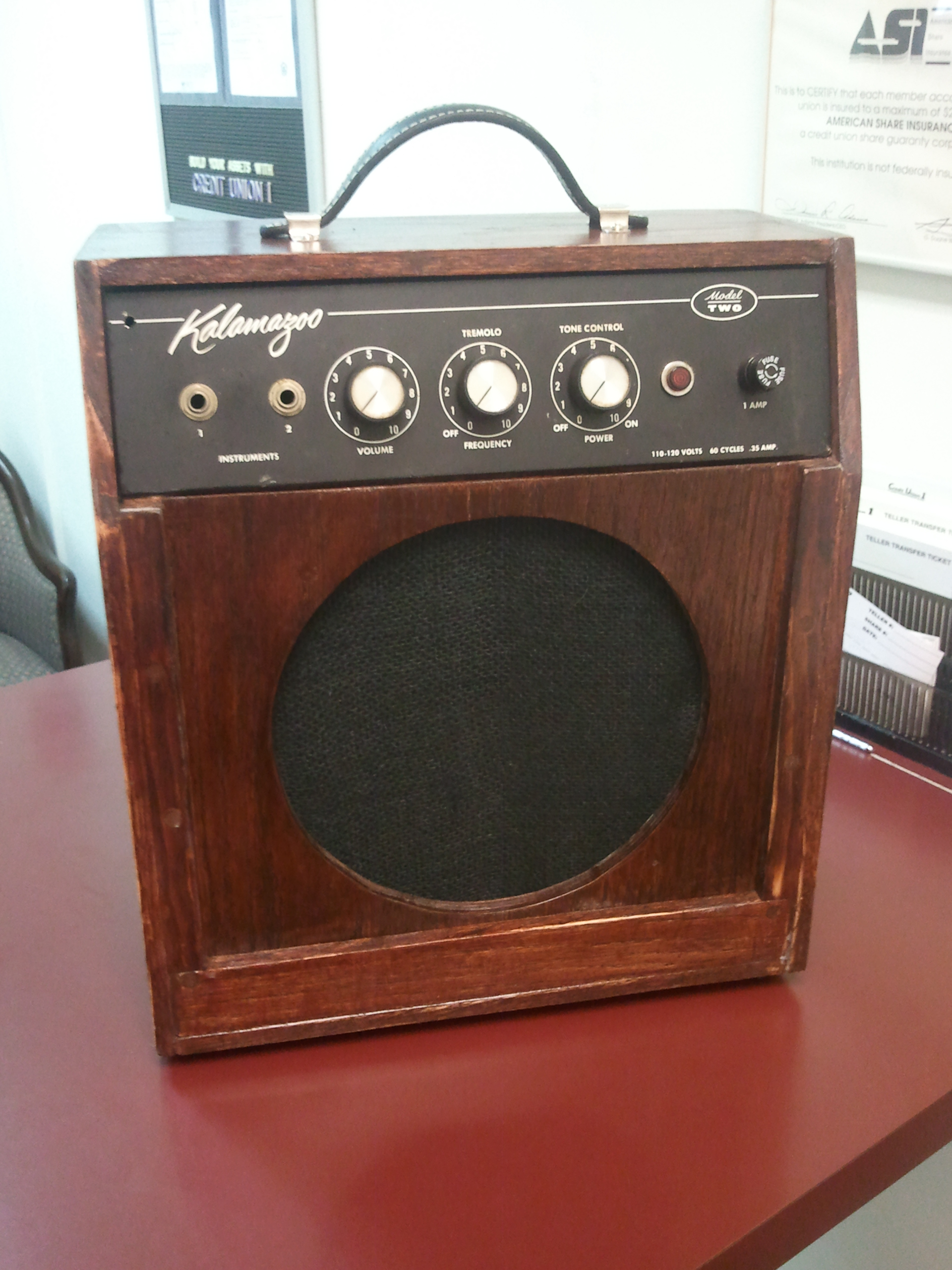 This is my own Kalamazoo M2 amp, the cabinet of which I rebuilt myself from solid oak to replace the deteriorating particleboard original cabinet.